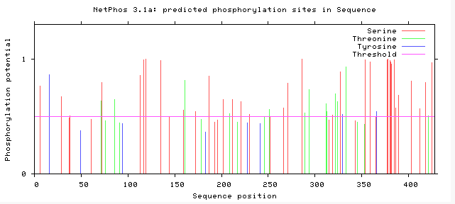 Predicted phosphorylation sites in human TMEM44 protein (legend found at the top right corner of the graph)